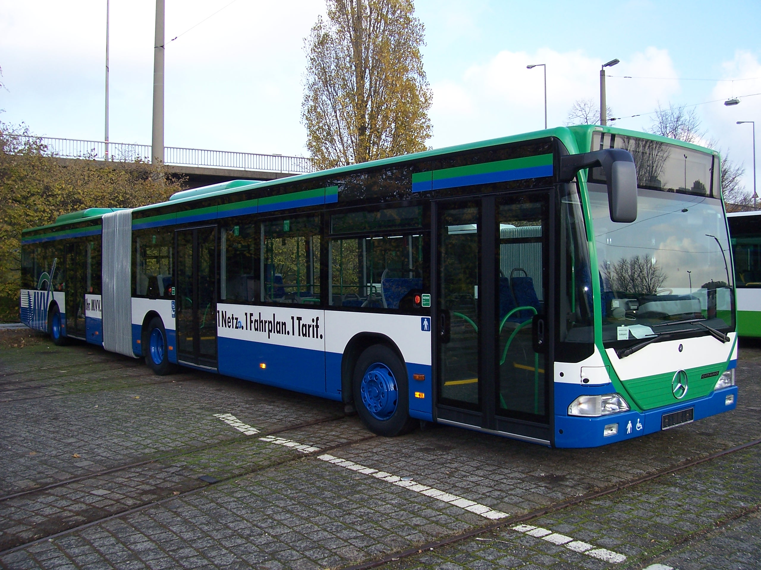 An EvoBus/Mercedes-Benz Citaro at MOT 2005 in Mannheim, Germany My own photo from 19-nov-2005